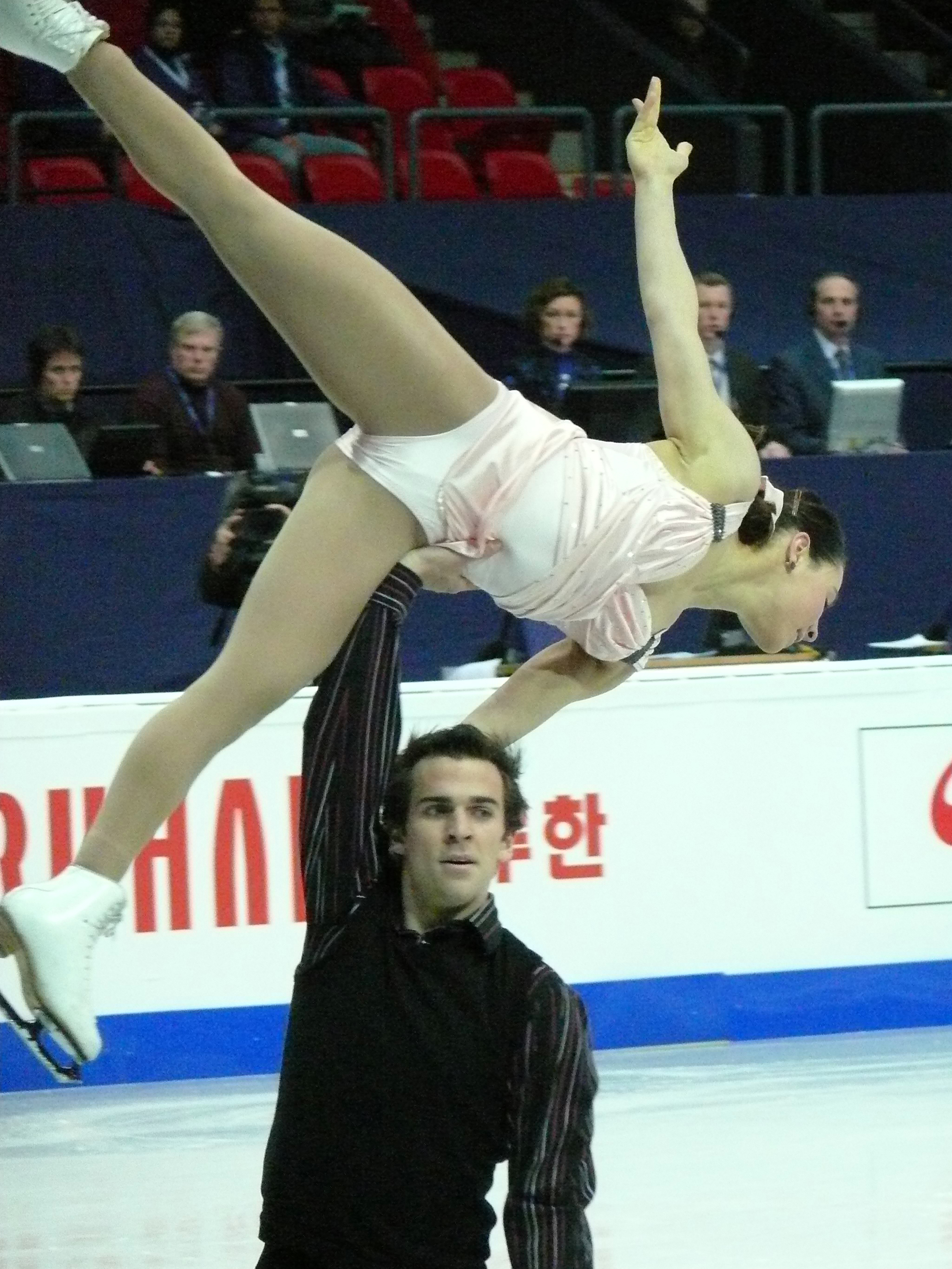 Jessica Dubé and Bryce Davison (CAN) at their free program at the World Championships in Figure Skating in Göteborg (SWE)